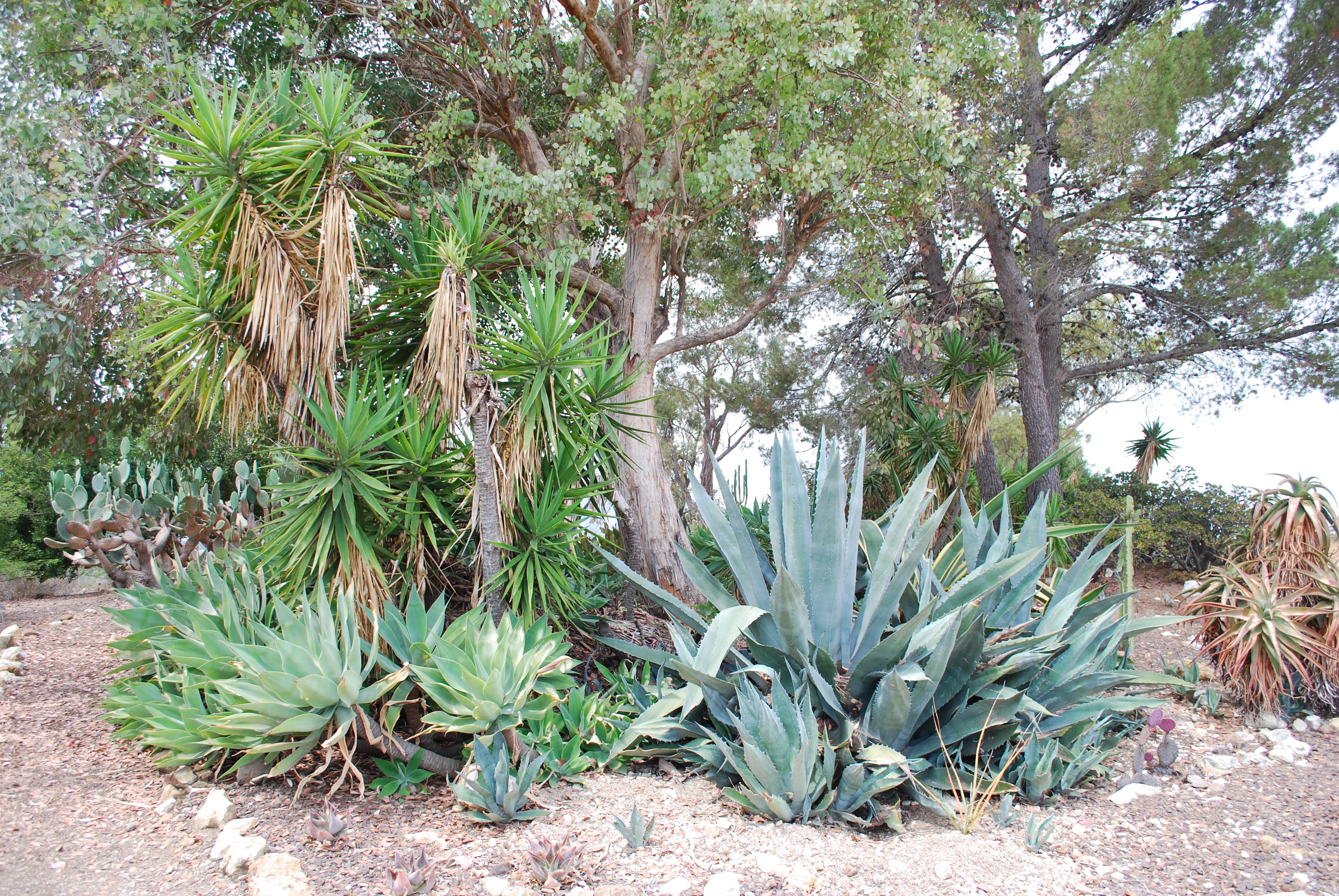 Desert Garden at Conejo Valley Botanic Garden, Thousand Oaks, CA.